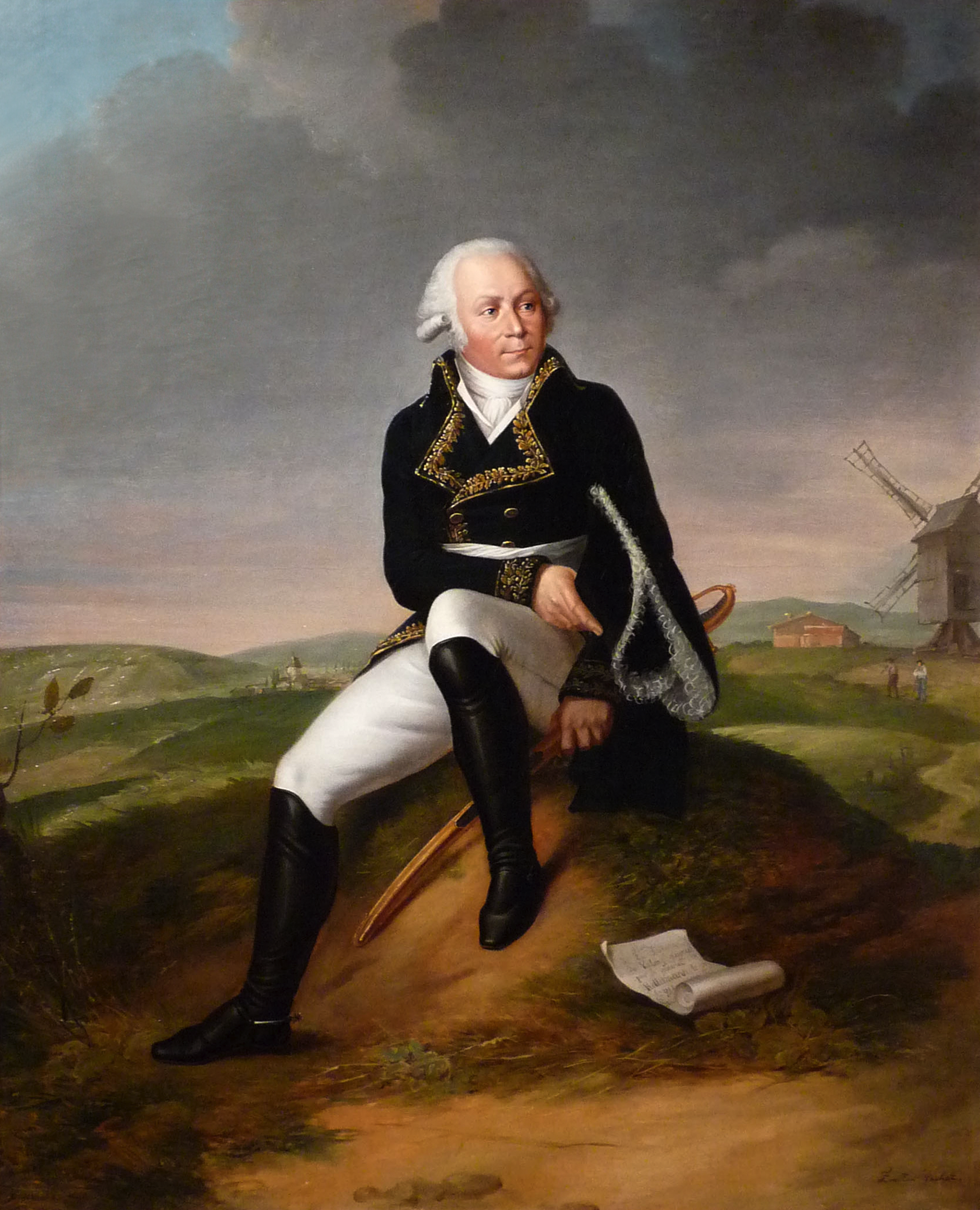 General François Christophe Kellermann, by Lucile Foullon-Vachot (1775-1865) after a painting by Maritnet engraved by Charon. Oil on canvas. On display at Strasbourg Historical museum, accession number MBA 1770.